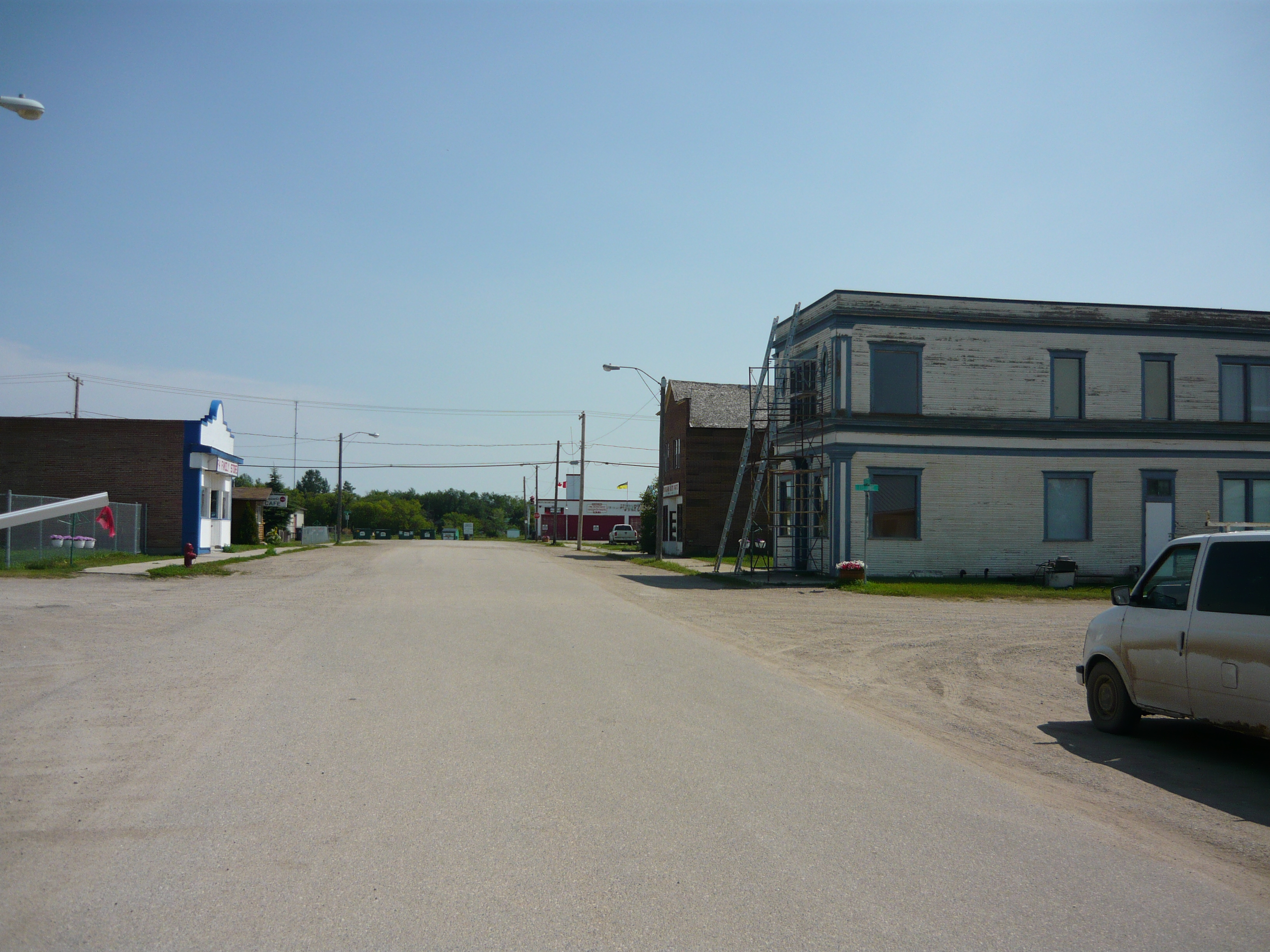 Business district of Dundurn, Saskatchewan, Canada. Photo taken from intersection of 1st Avenue and 2nd Street, looking eastward along 2nd Street.